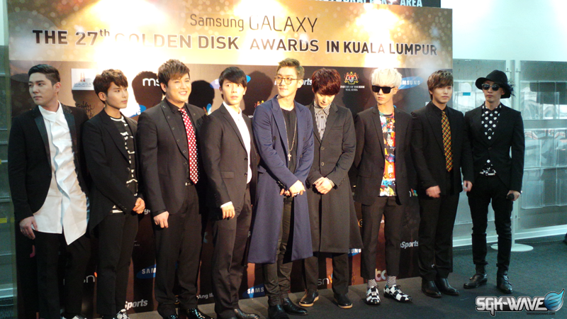 Super Junior at the 27th Golden Disk Awards